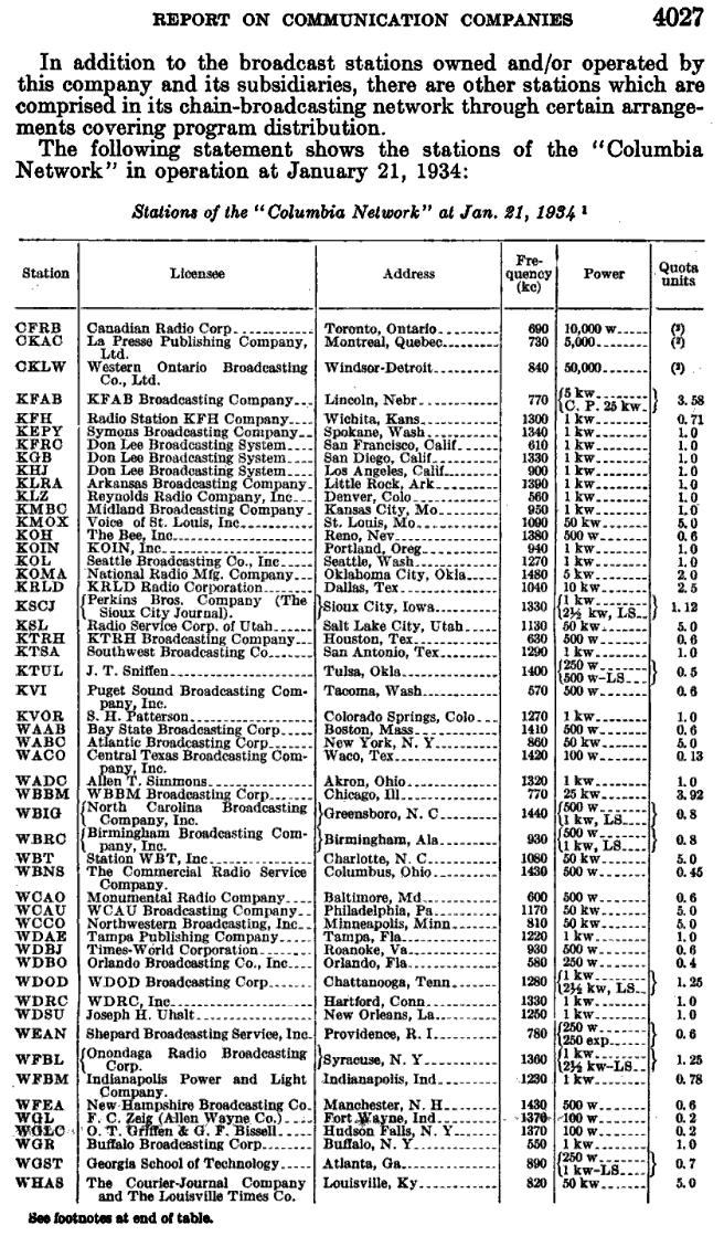 "Stations of the 'Columbia Network' at Jan., 21, 1934" from page 4027 of "Public House Reports (73d U.S. Congress, 2d Session (January 3-June 18, 1934)): Volume 6, Part 5". (Report on Communication Companies: Section D, Division 5, Radio Companies: Columbia Broadcasting System, Inc. Group), 1935.